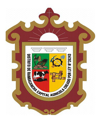 escudo de Ranracancha